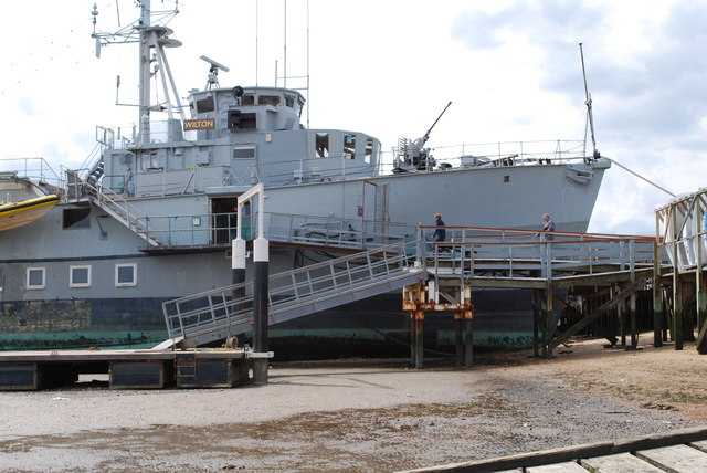 HMS Wilton